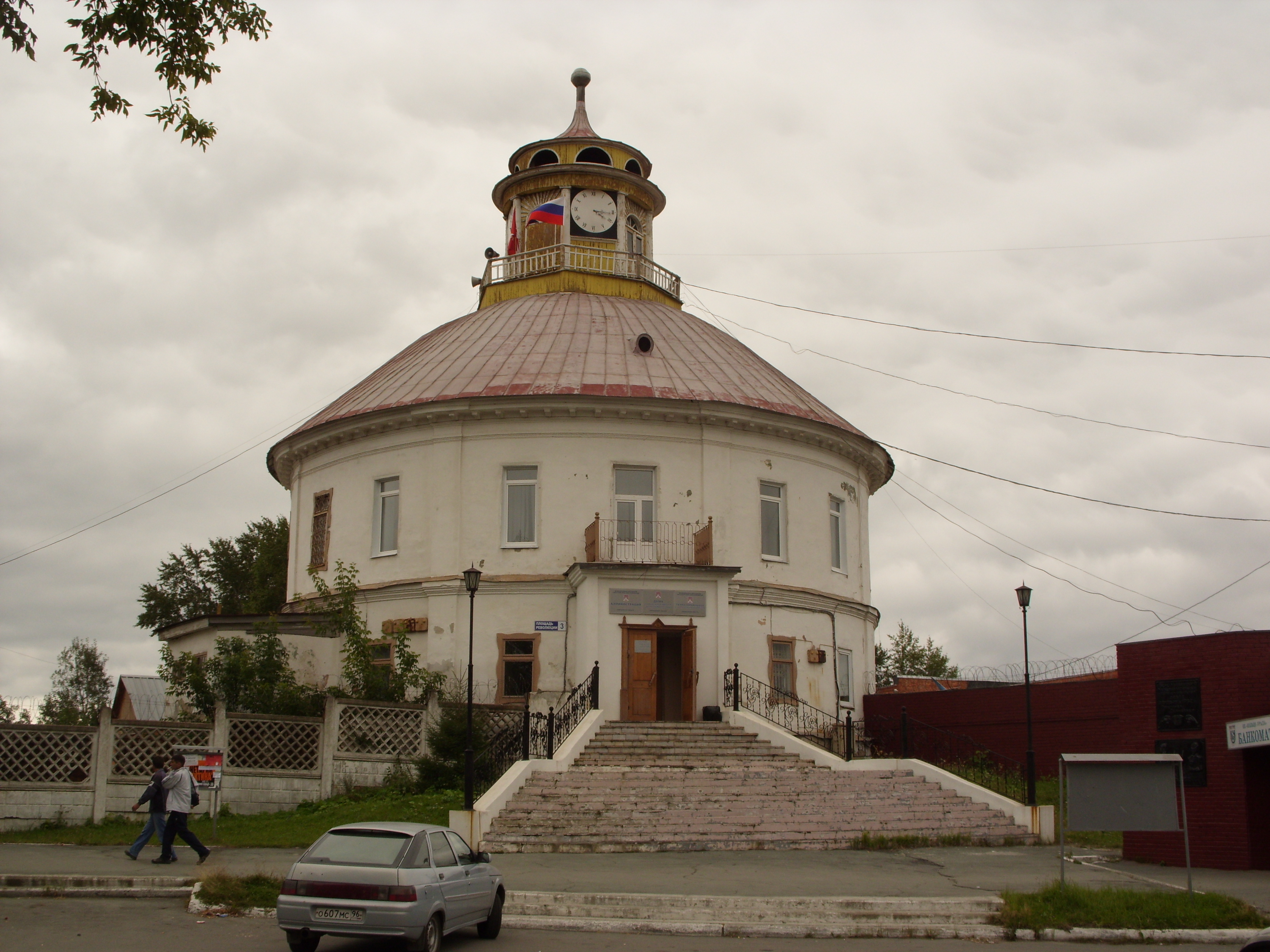 Unknown